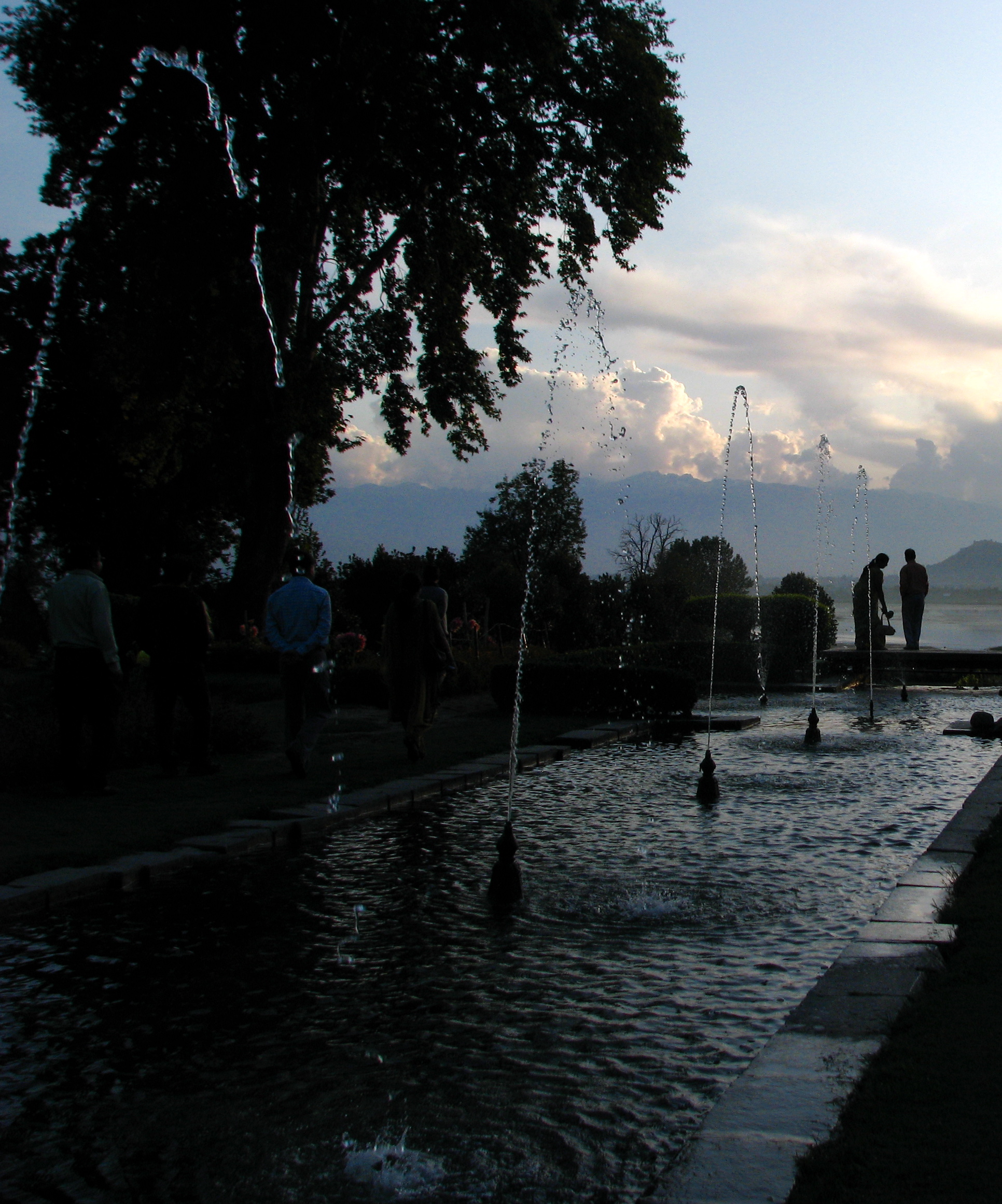 Playful fountains at Nishat Bagh Mughal gardens